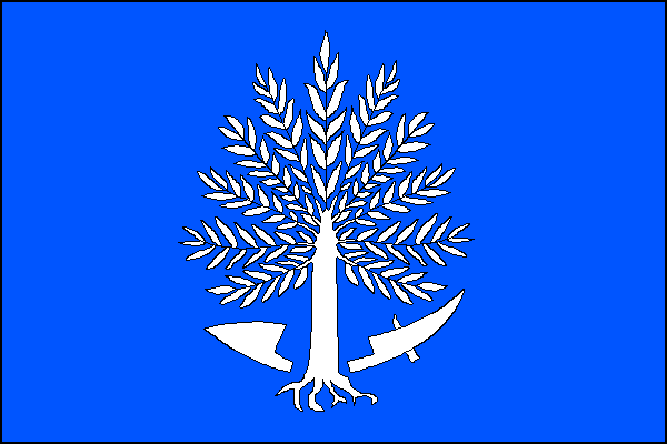 Municipal flag of Kunín village, Nový Jičín District, Czech Republic.